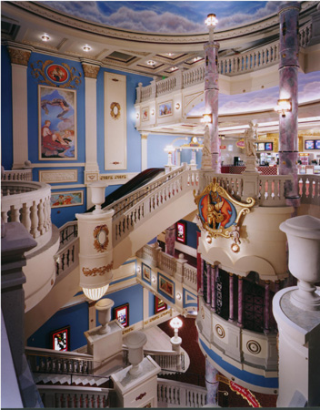 The inside of the Muvico Parisian 20 theater, located in West Palm Beach.